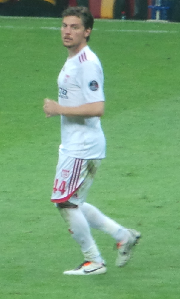 Erhan Sivasspor formasıyla